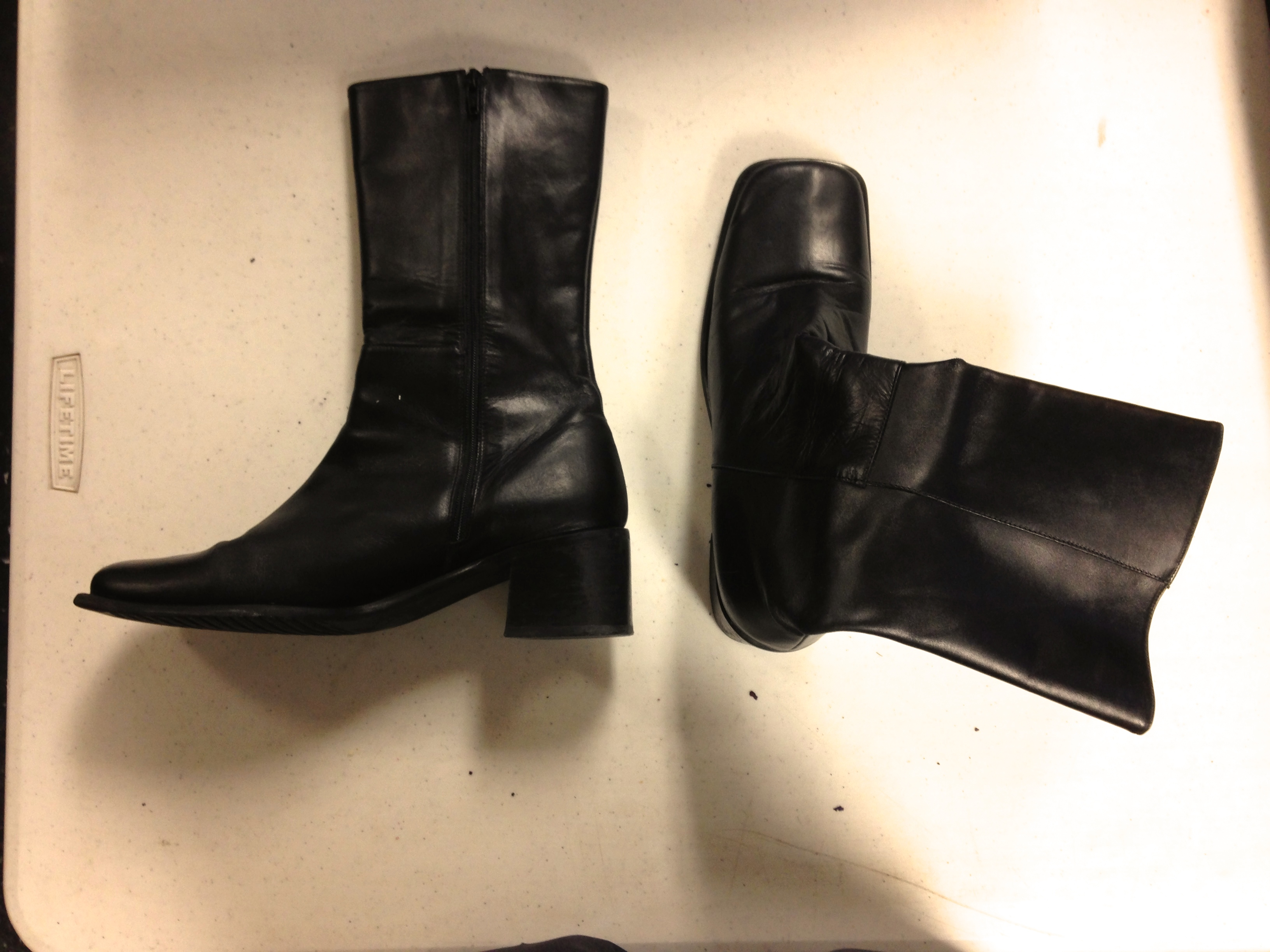 1960s-inspired go-go boots popular during the mid-late '90s.